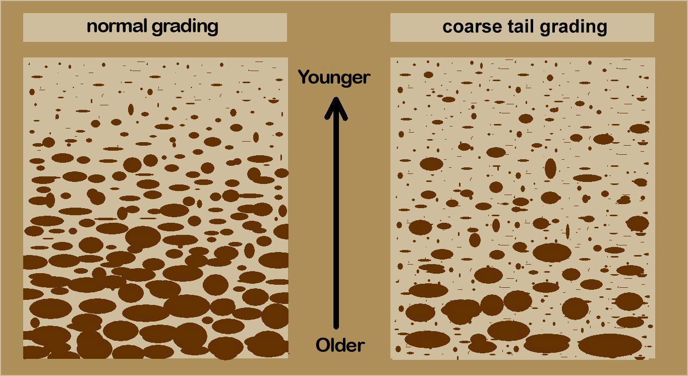 Schematic diagram showing two styles of graded bedding in sedimentary rocks